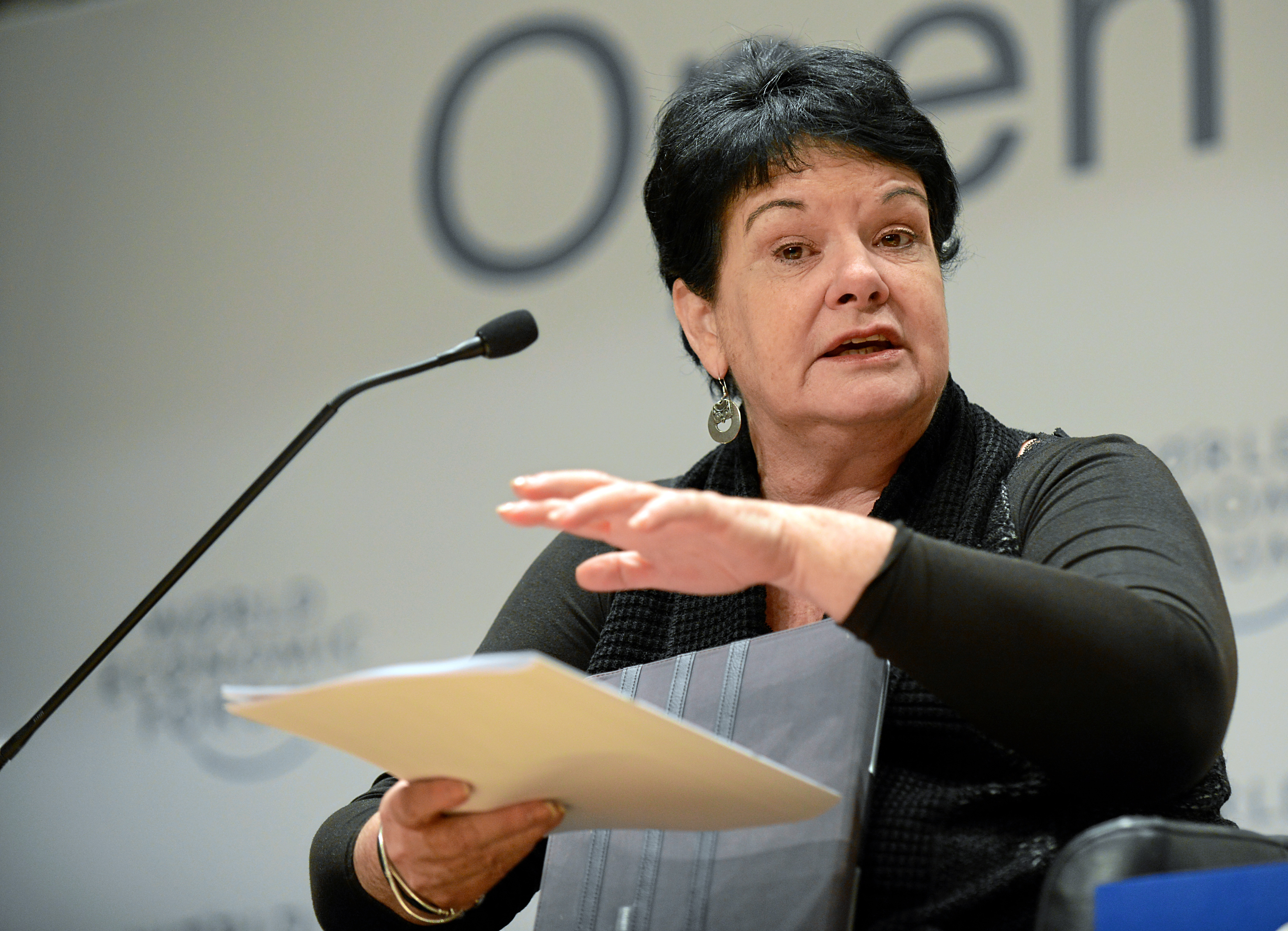 DAVOS/SWITZERLAND, 23JAN13 - Sharan Burrow, General Secretary, International Trade Union Confederation (ITUC), Brussels; Global Agenda Council on Governance for Sustainability gestures at the Open forum interactive session 'Unemployed or Unemployable?' at the Swiss alpine high school (SAMD) at Annual Meeting 2013 of the World Economic Forum in Davos, Switzerland, January 23, 2013.. . Copyright by World Economic Forum. . Michael Wuertenberg